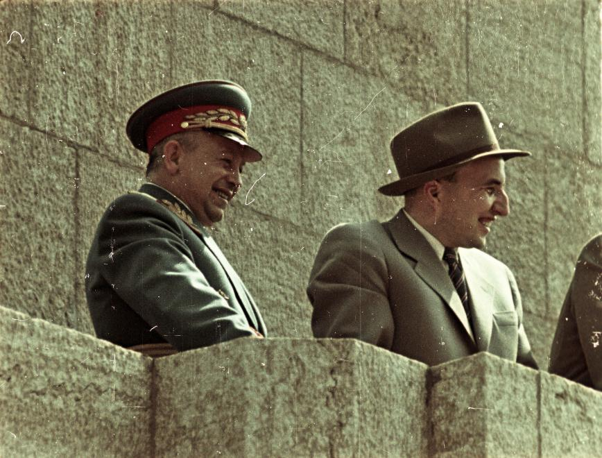 Defence minister general István Bata and prime minister András Hegedüs at the workers procession on the 1st of May, 1955, in Budapest